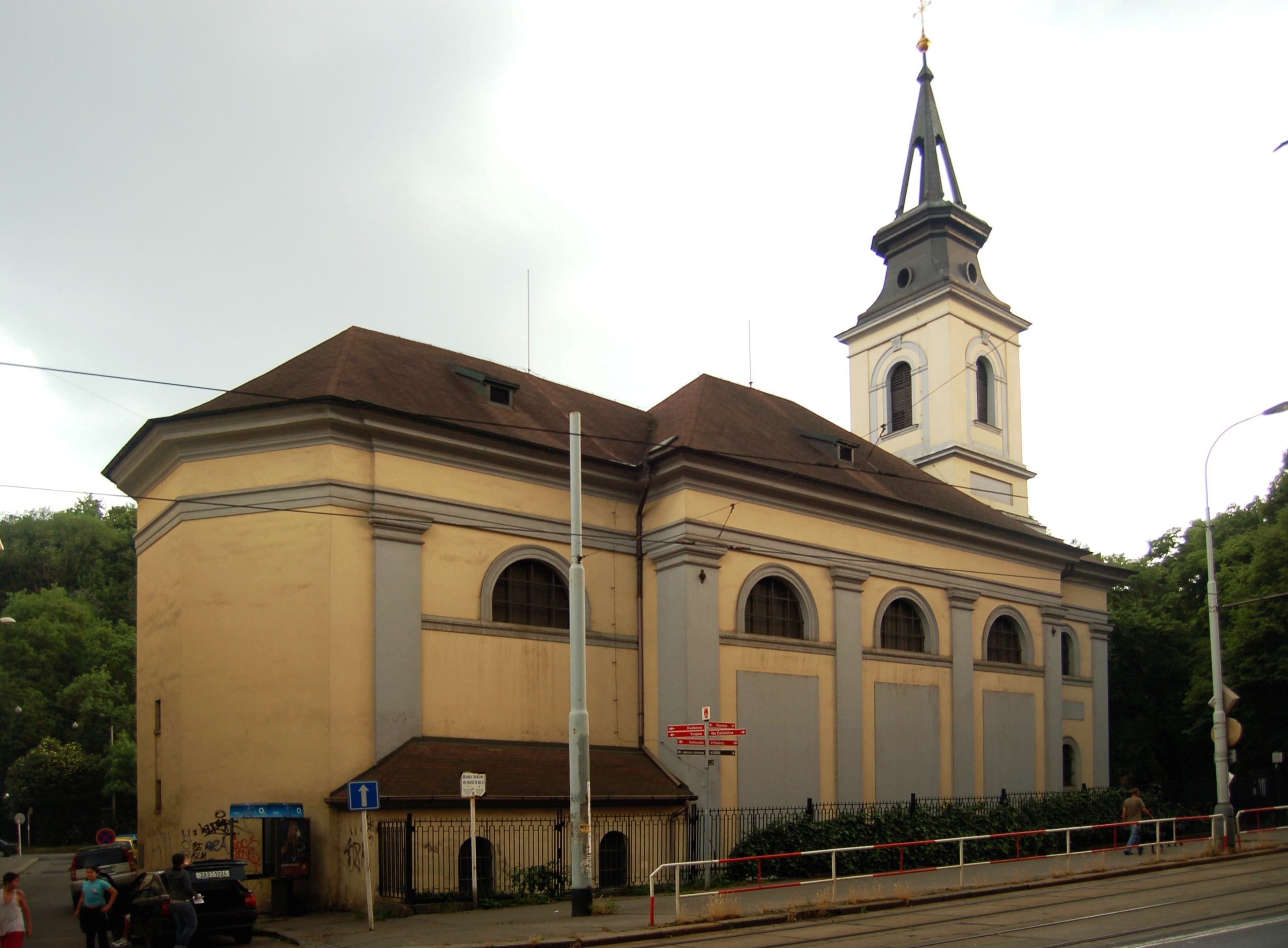 Holy Trinity Church in Smíchov (Prague, Czechia), adjacent to Lesser Town Cemetery